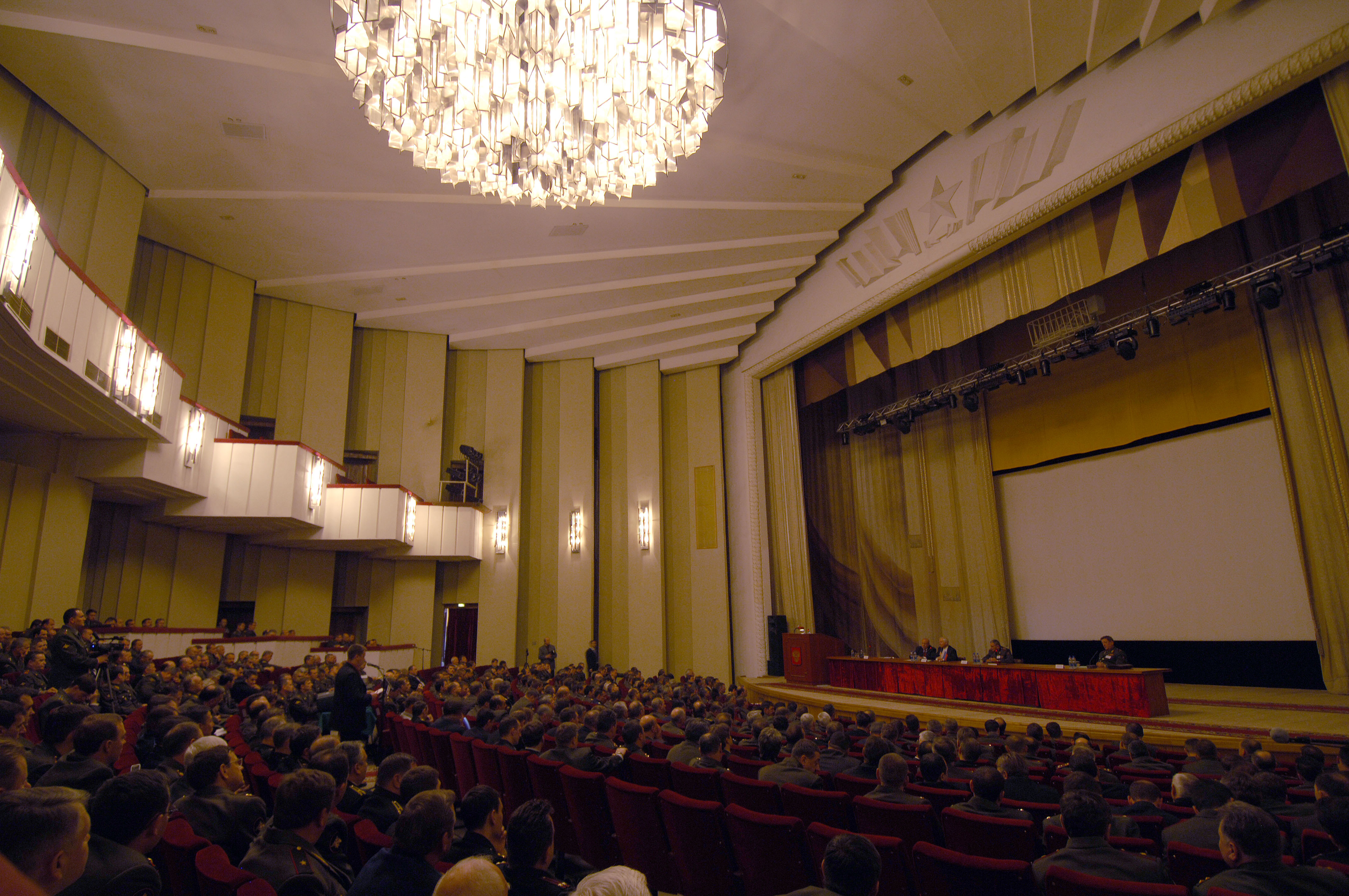 Interior of the Russian General Staff Academy in Moscow.